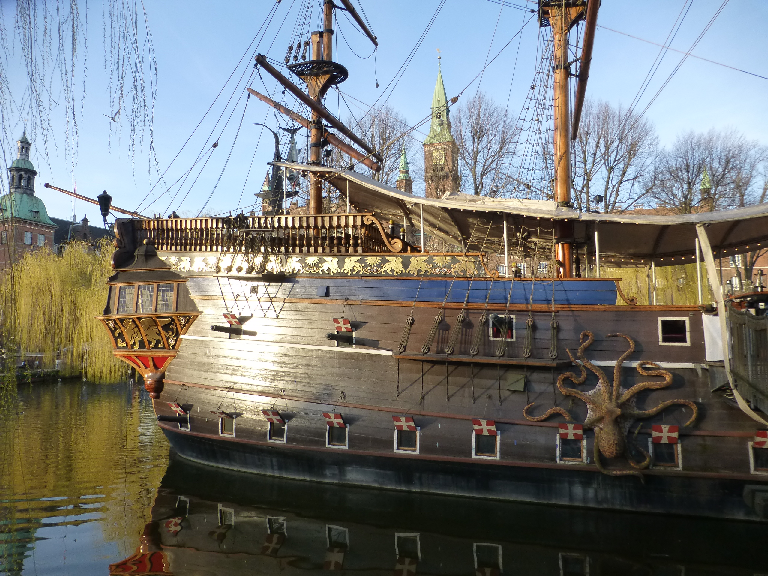 The restaurant ship Fregatten Sct. Georg III in the amusement park Tivoli in Copenhagen.